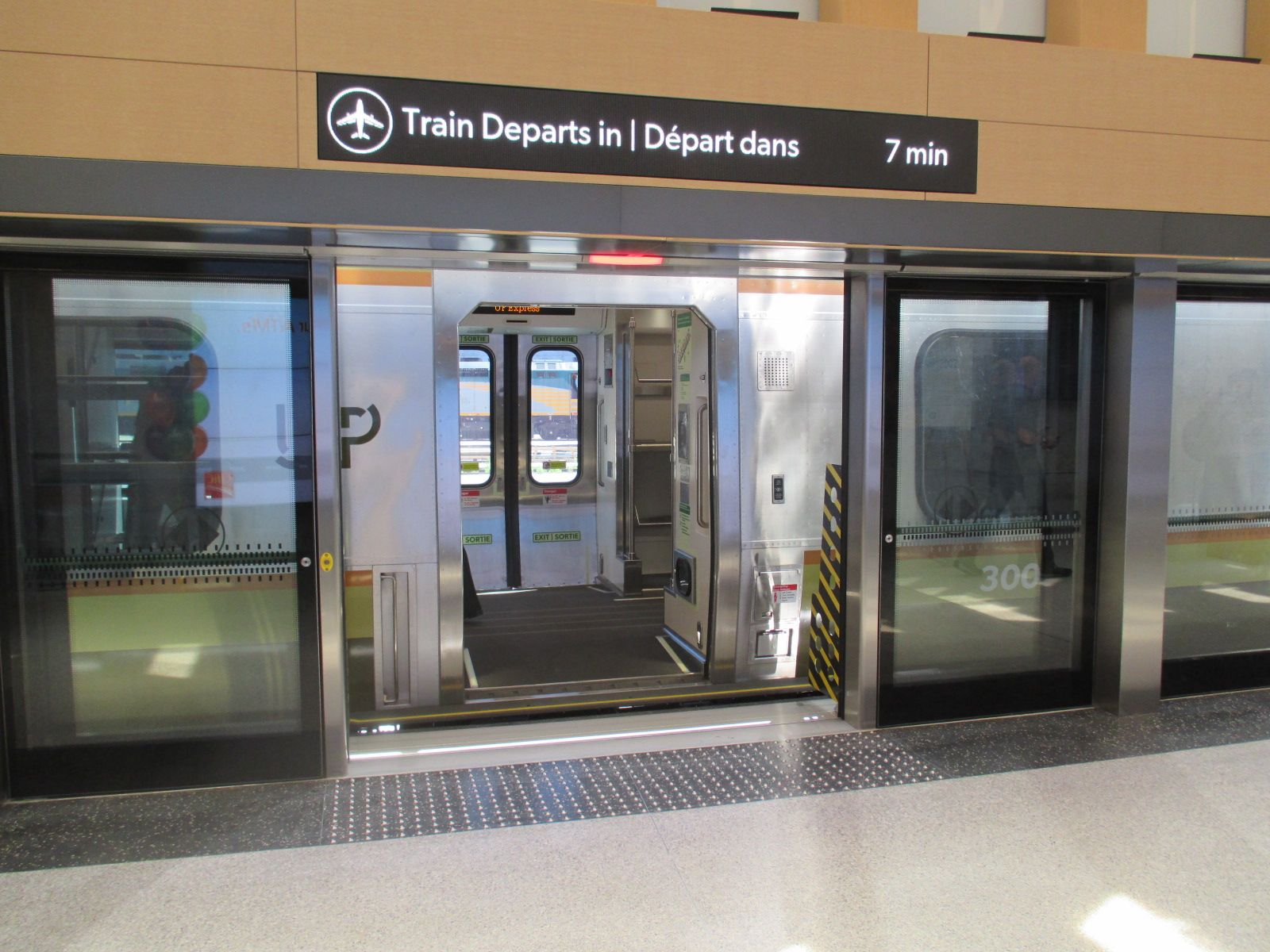 An open gate from the UPX waiting area at Union Station allowing access to a waiting UPX train.